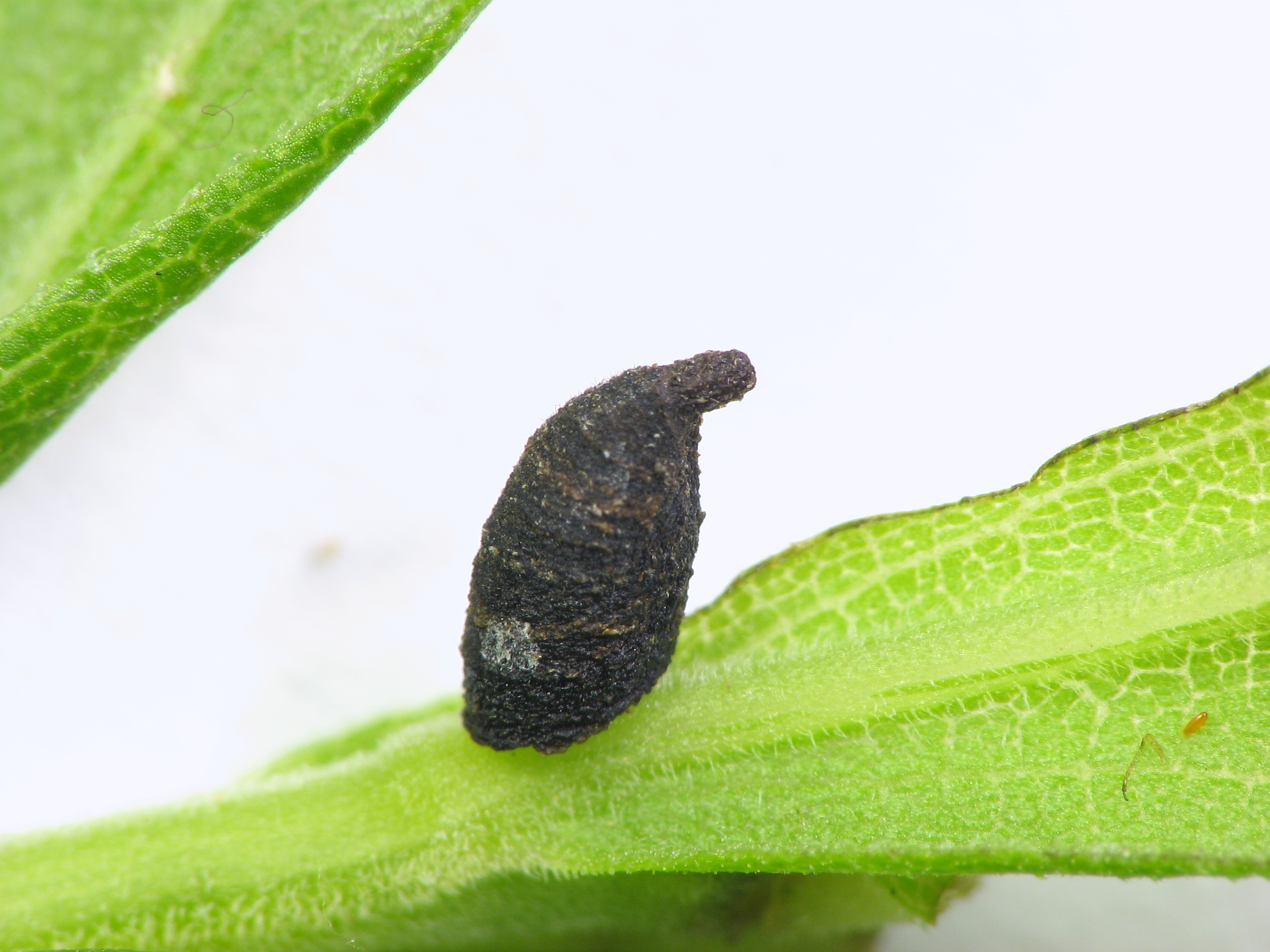 Warty leaf beetle, Exema, larva in fecal case on goldenrod leaf. Size: 4 mm. Pennypack Restoration Trust, Montgomery County, Pennsylvania, USA. 40.1420° N, 75.0830° W.